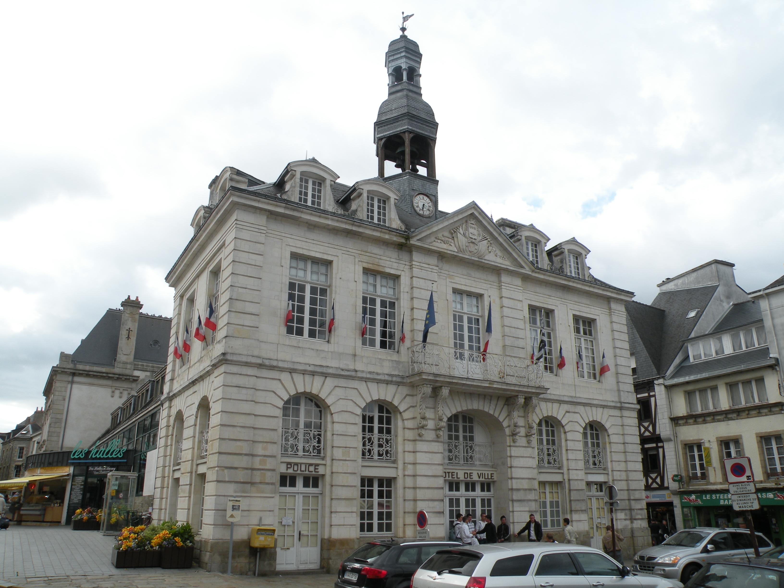 Town hall of Auray built in 1782.